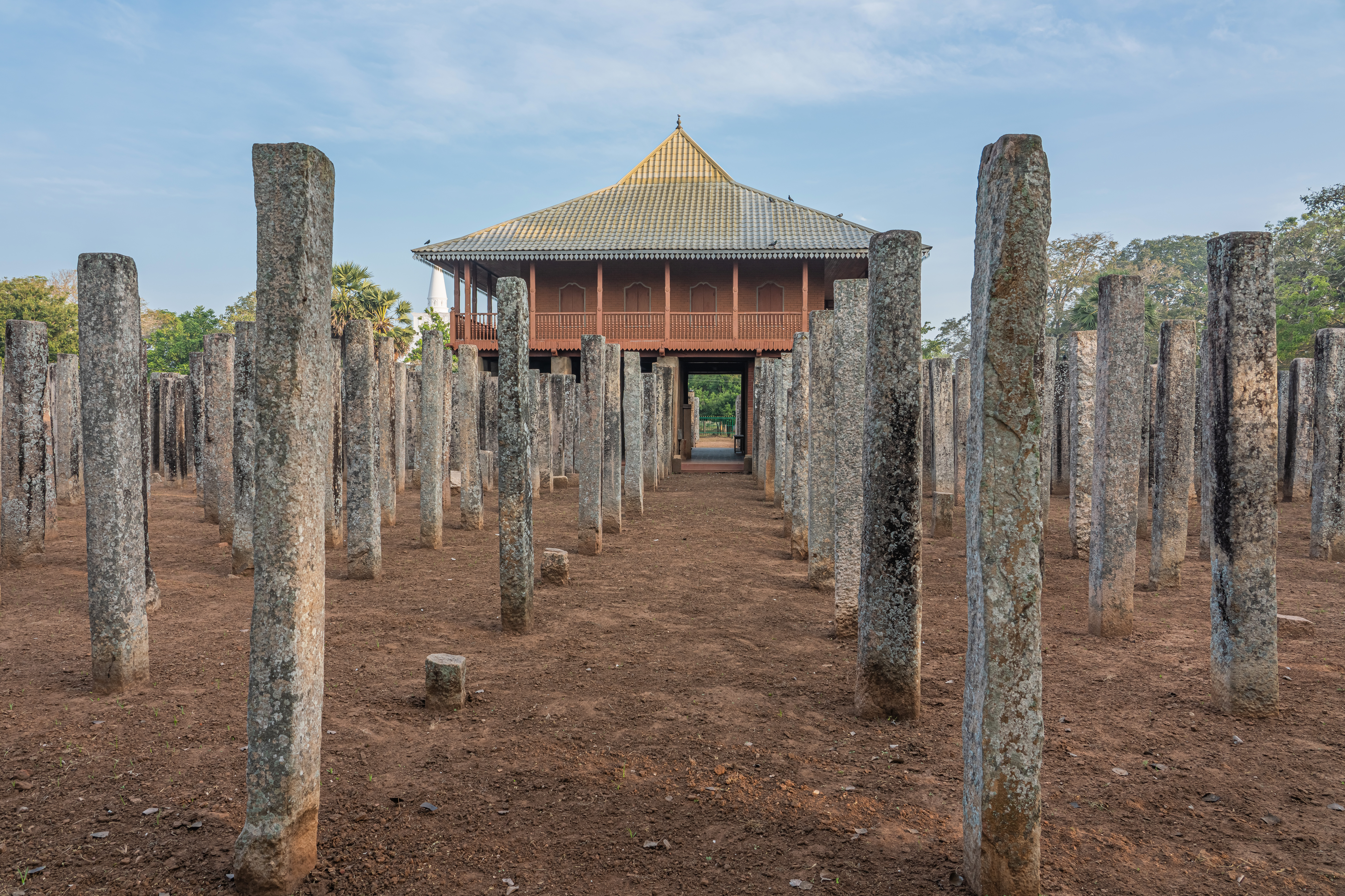 Pillars of former Lovamahapaya building in Anuradhapura, Sri Lanka